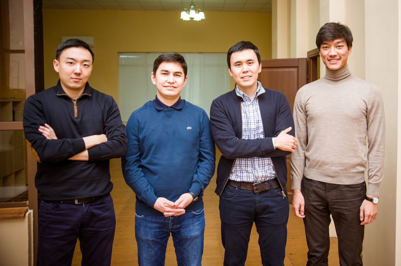 Naimi.kz founders